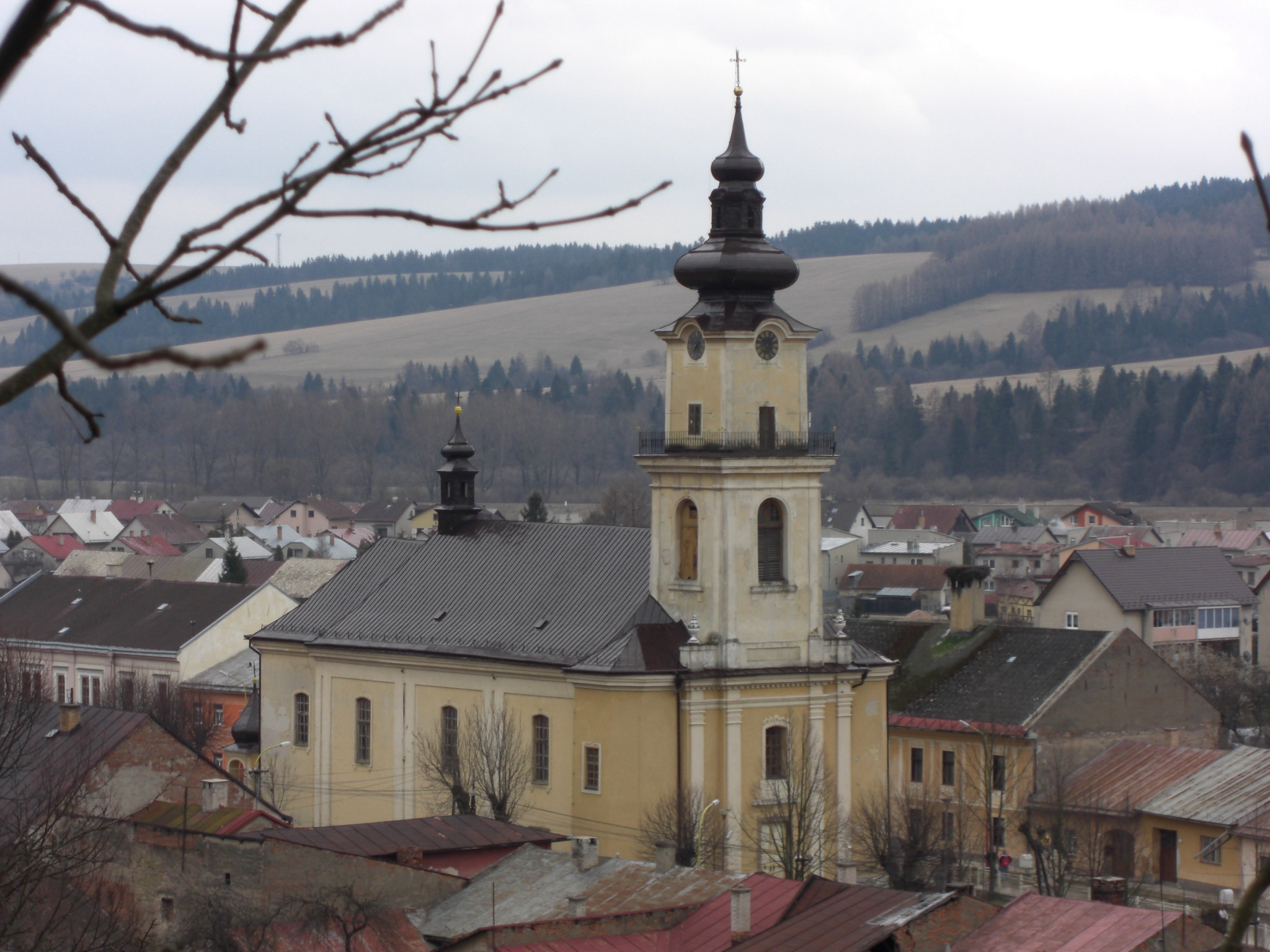 St. Bartholomäus Church in Hniezdne/Slovakia